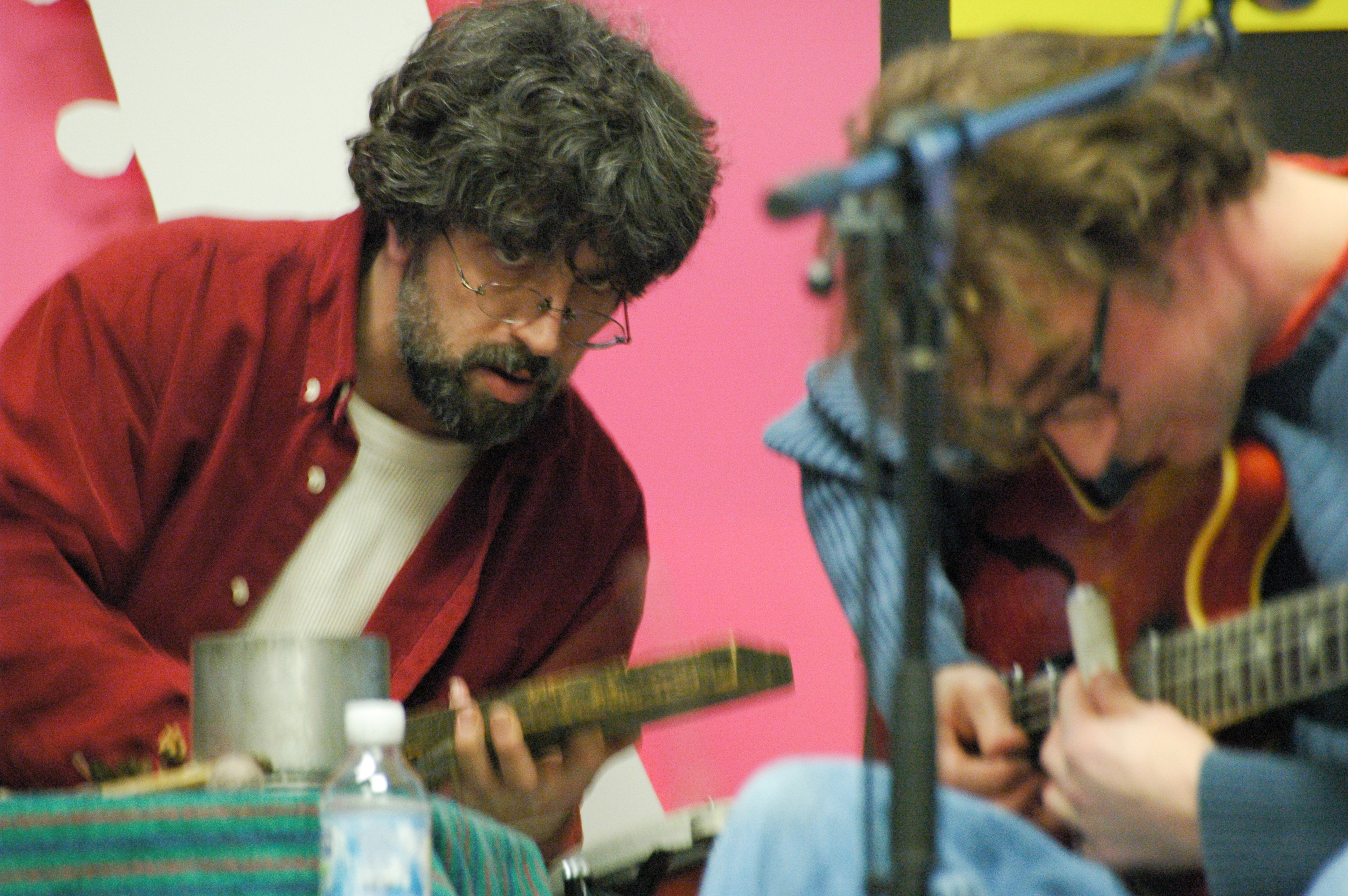 Tim Rutili and Ben Massarella performing in Chicago